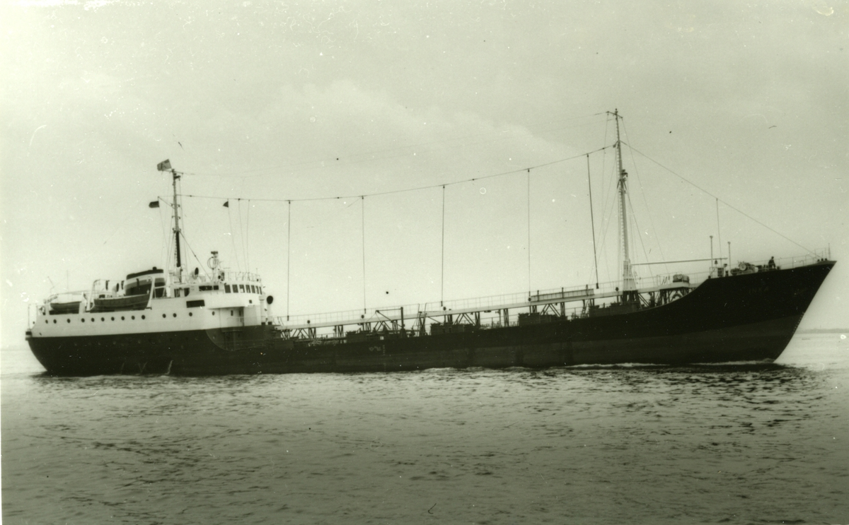 Tanker INKA (IMO 5161598) built at Norderwerft Köser & Meyer, Hamburg, as RHEINLAND (yard № 795, launched: 22-11-1951, delivered: 06-1952), Jansen/Schiffsfotos, collection J. Robert Boman (1926 - 2002), copyright owned by Sjöhistoriska museet.